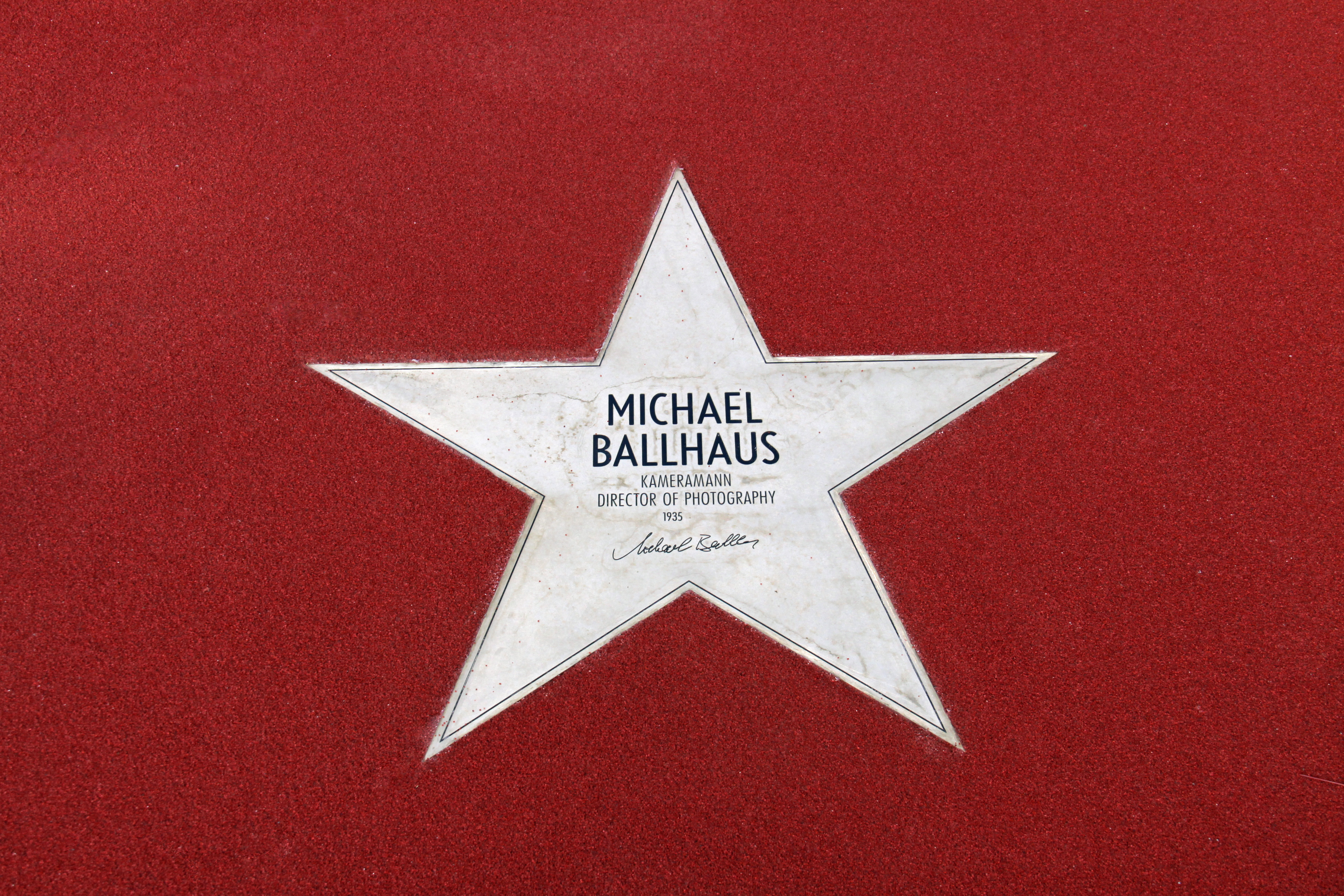 Star of Michael Ballhaus at the "Boulevard der Sterne" in Berlin